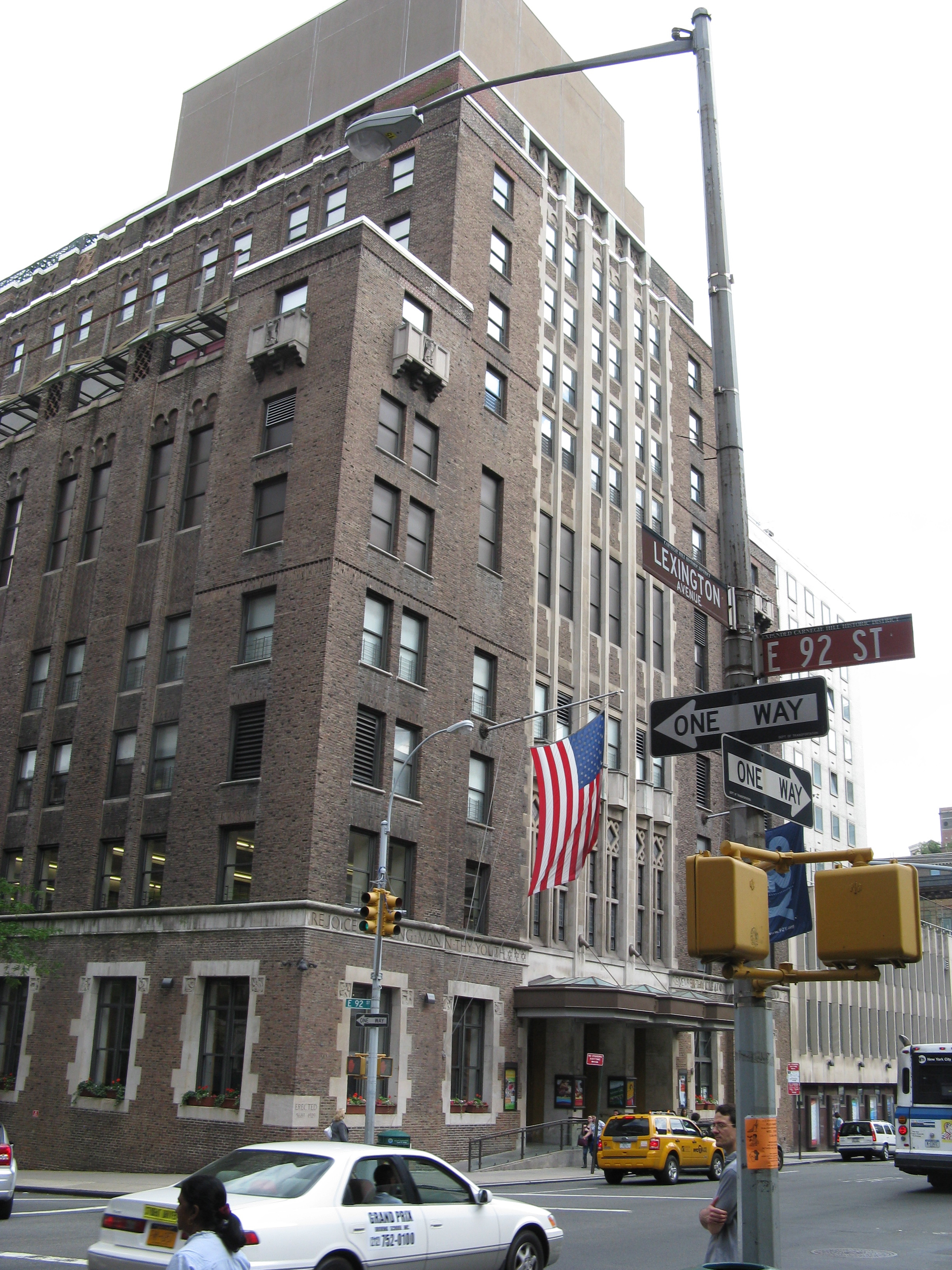 92nd Street Y.